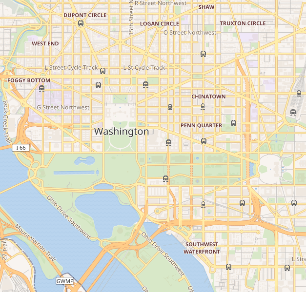 This map of Washington D.C. was created from OpenStreetMap project data, collected by the community. This map may be incomplete, and may contain errors. Don't rely solely on it for navigation.